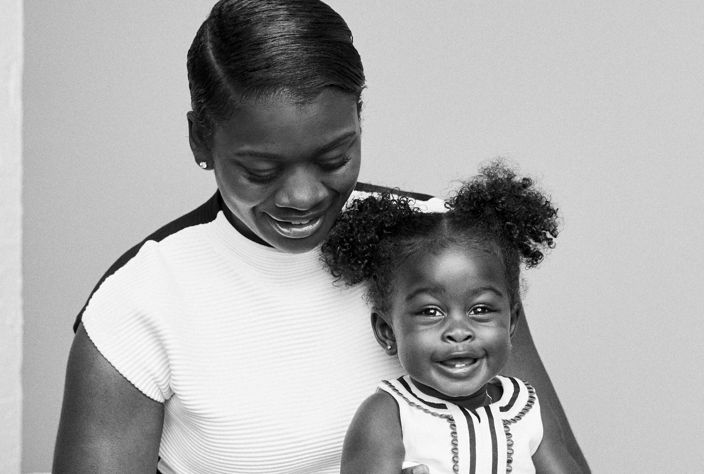 Photographer: Heather Hazzan; Wardrobe: Ronald Burton; Props: Campbell Pearson; Hair: Hide Suzuki; Makeup: Deanna Melluso at See Management. Shot on location at One Medical.